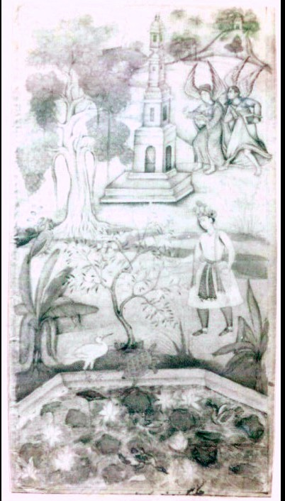 Vana parwa